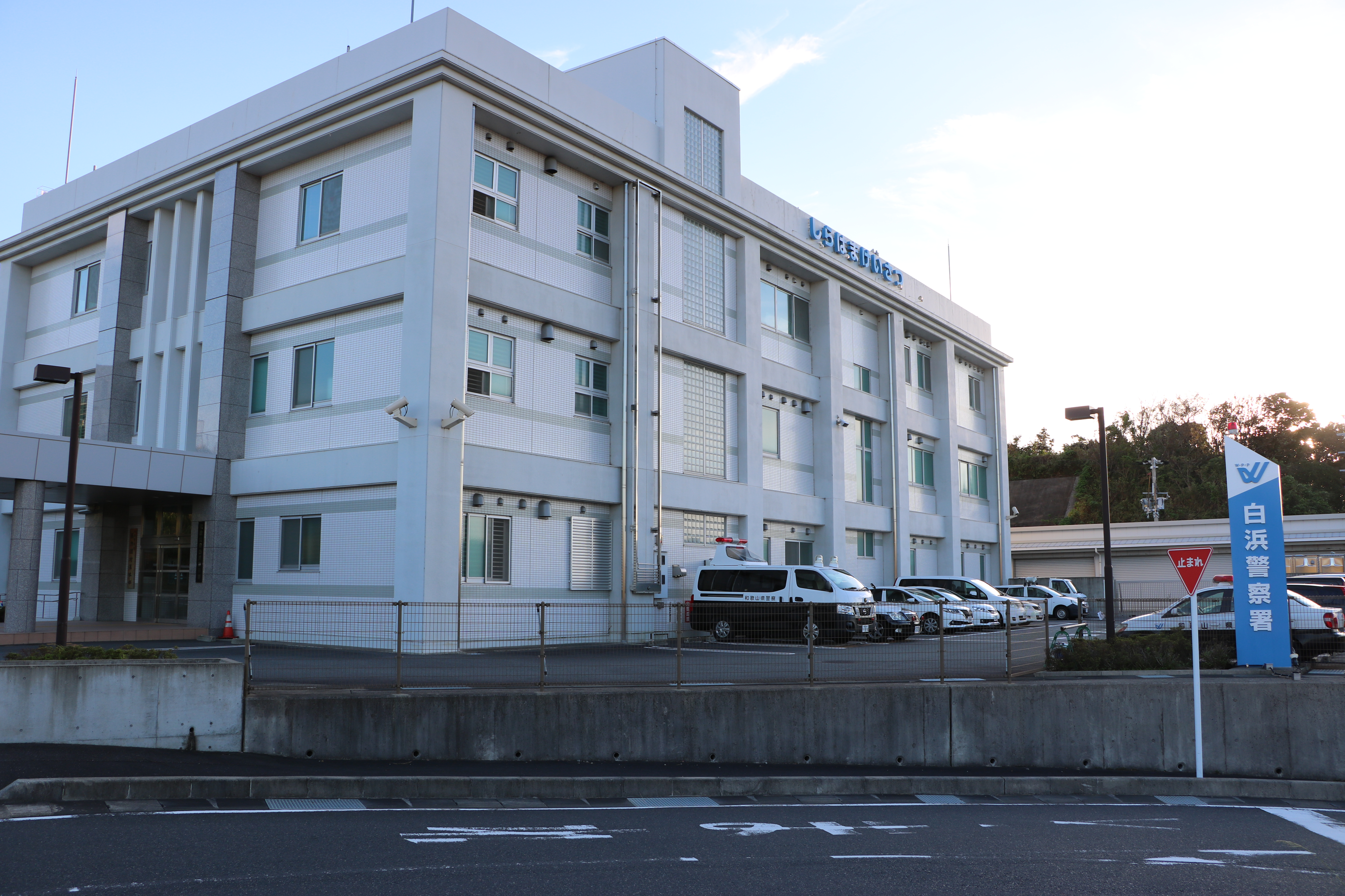 Shirahama Police Station